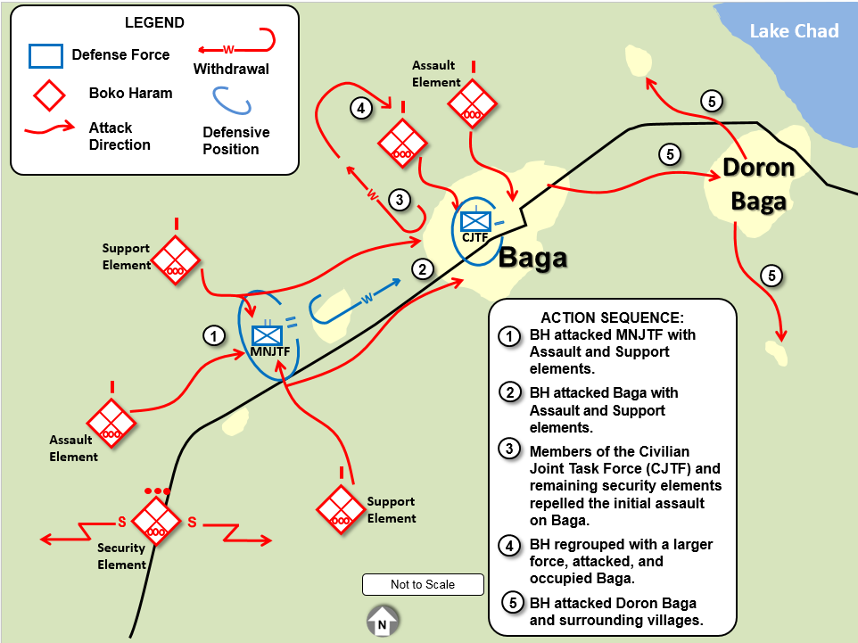 This map shows the assault on the Nigerian town of Baga by Boko Haram on 3 January 2015